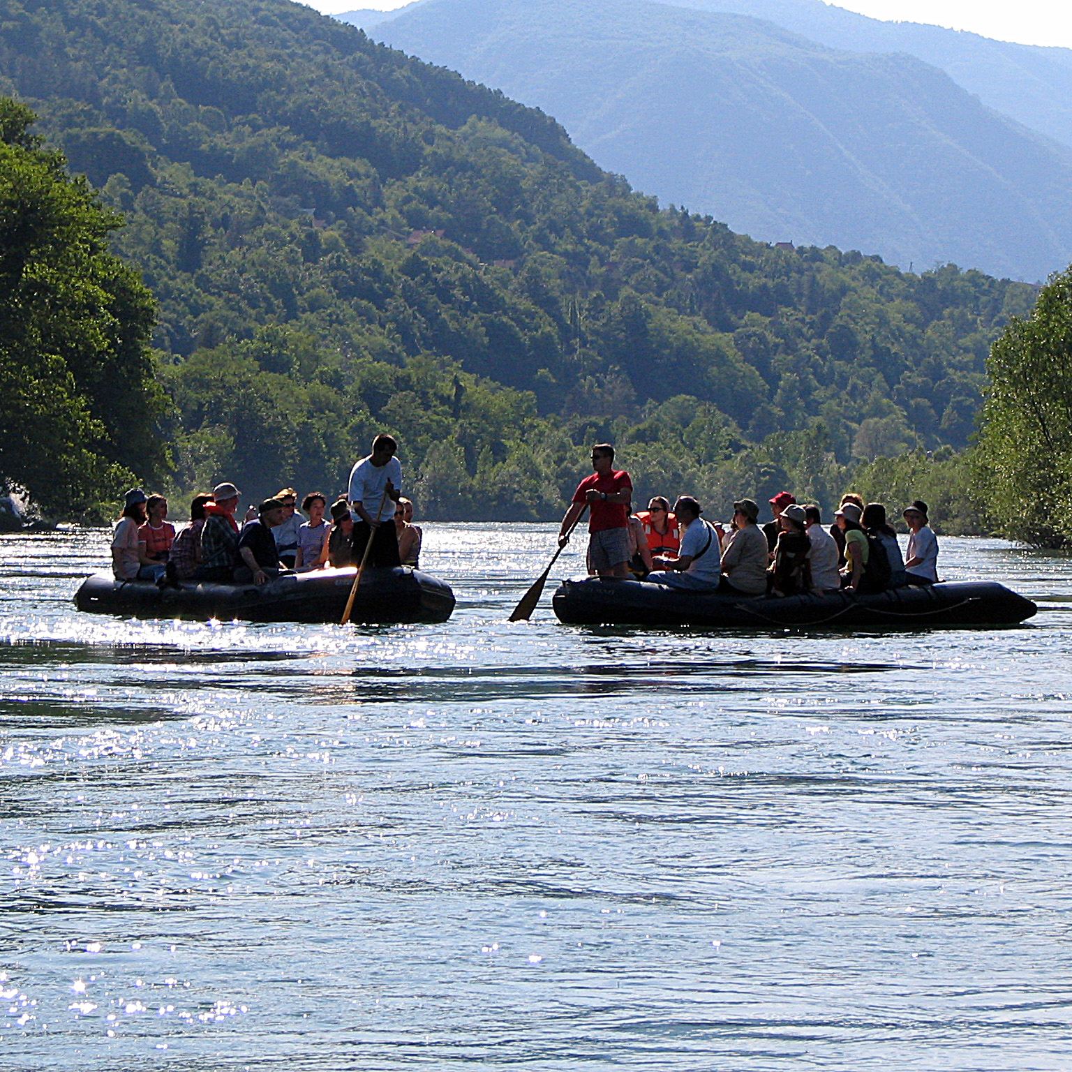 Drina rafting, Serbia